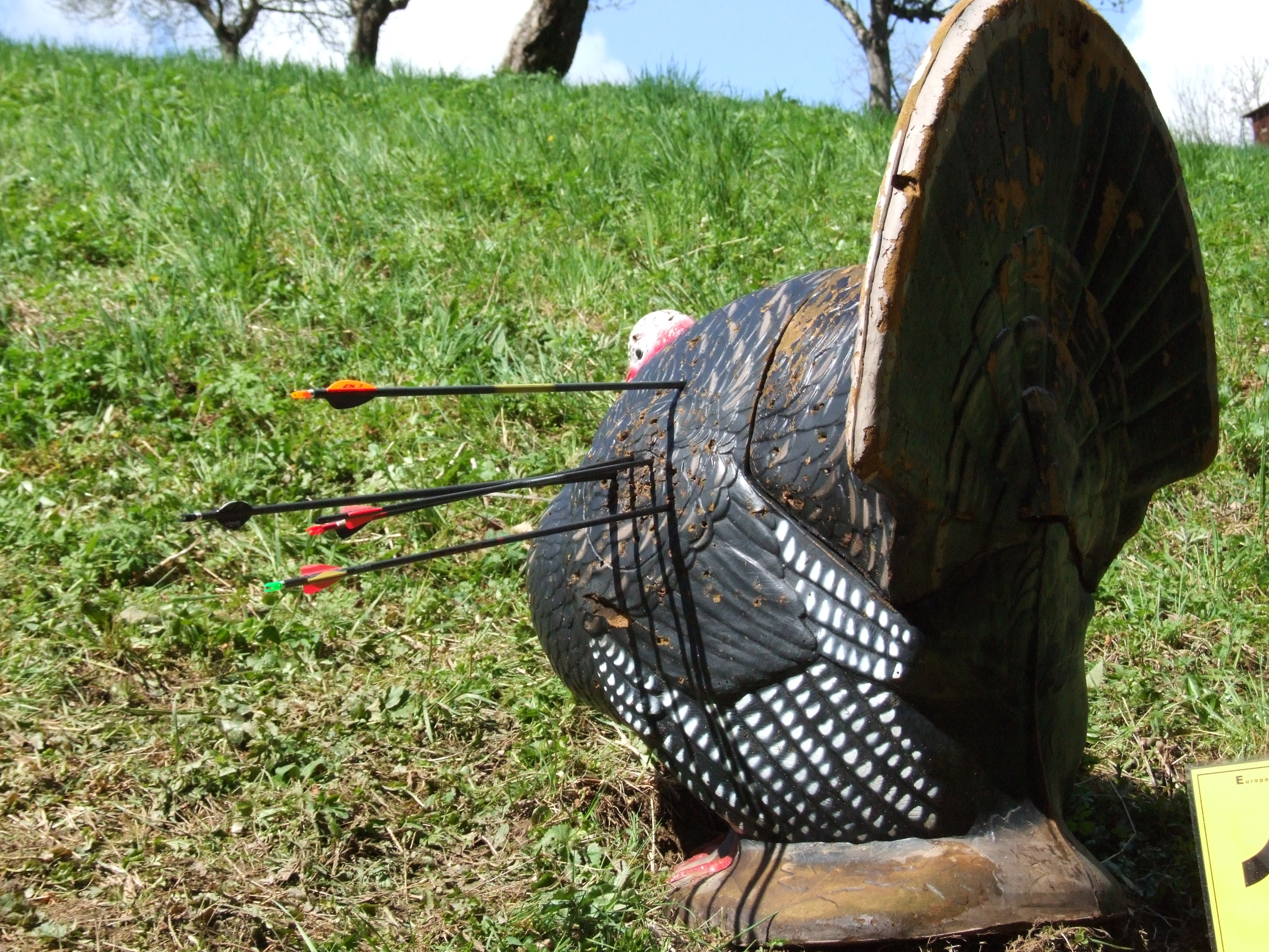 3D target detail with arrows